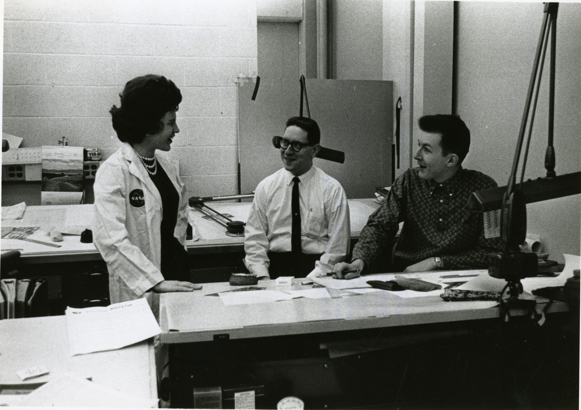 Acc 90-105, Box 13, Folder "Portraits, Lul-Luz"; " Barbara Kegerreis Lunde confers with associates at NASA's Goddard Space Flight Center in Greenbelt, MD, pursuing a career she chose because she likes dealing with absolute facts."